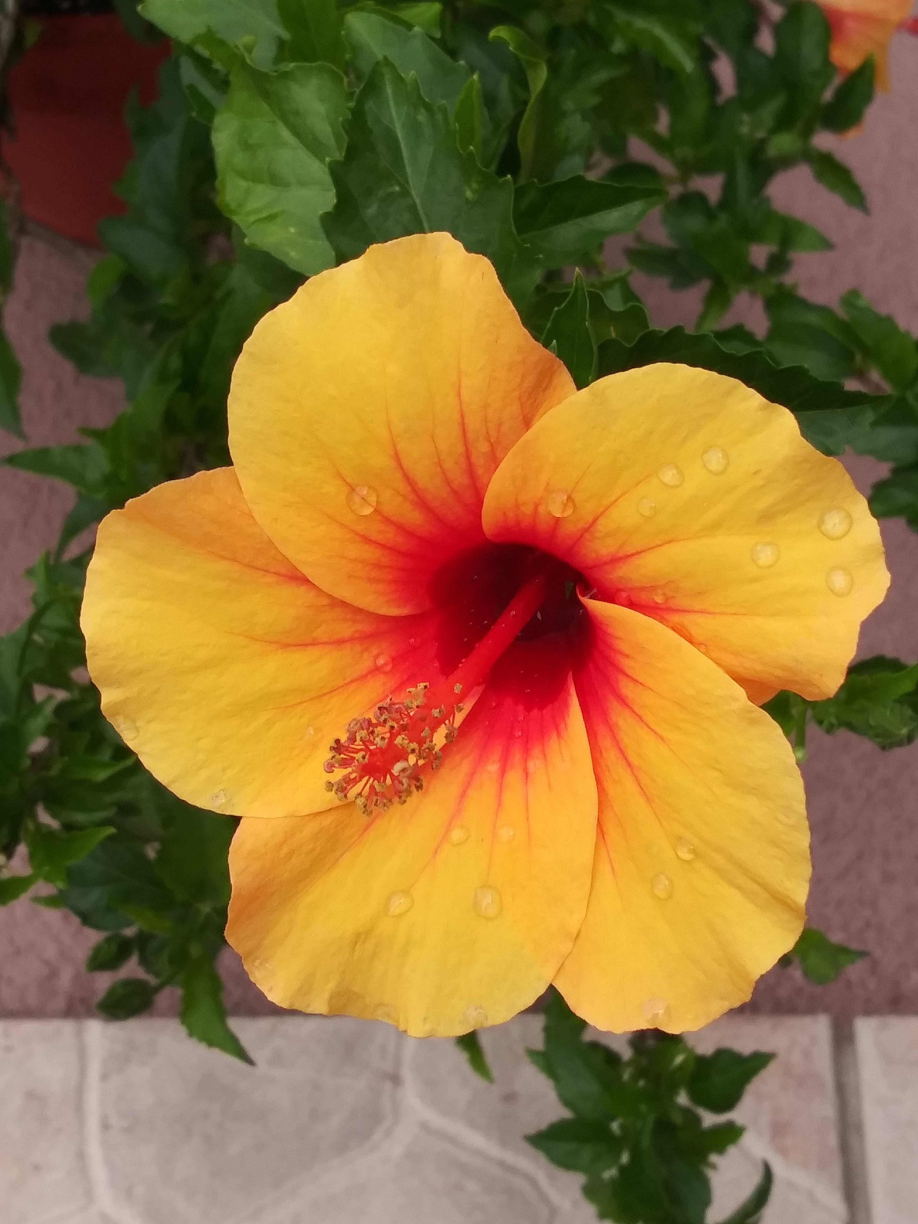 Yellow hibiscus flower rosa sinensis